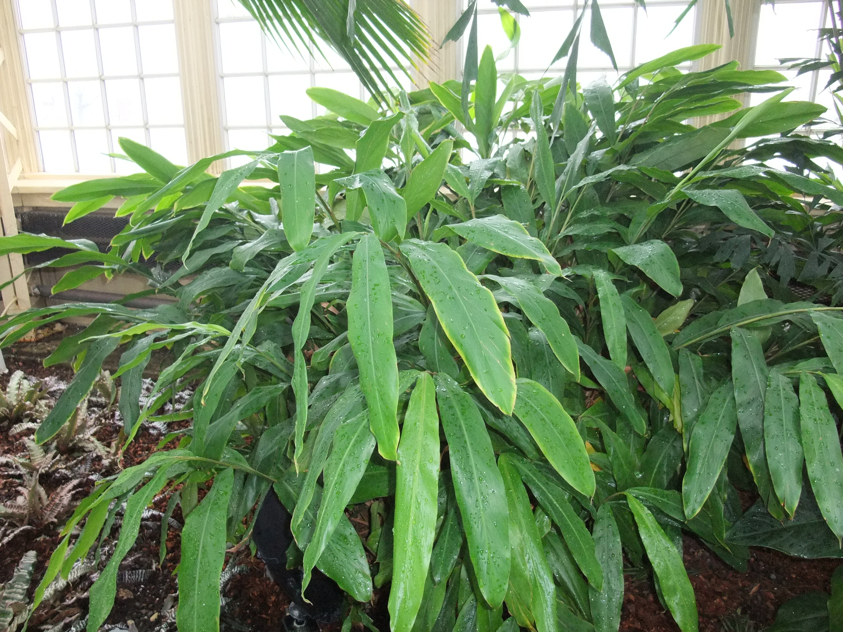 A photograph of Elettaria cardamomum.